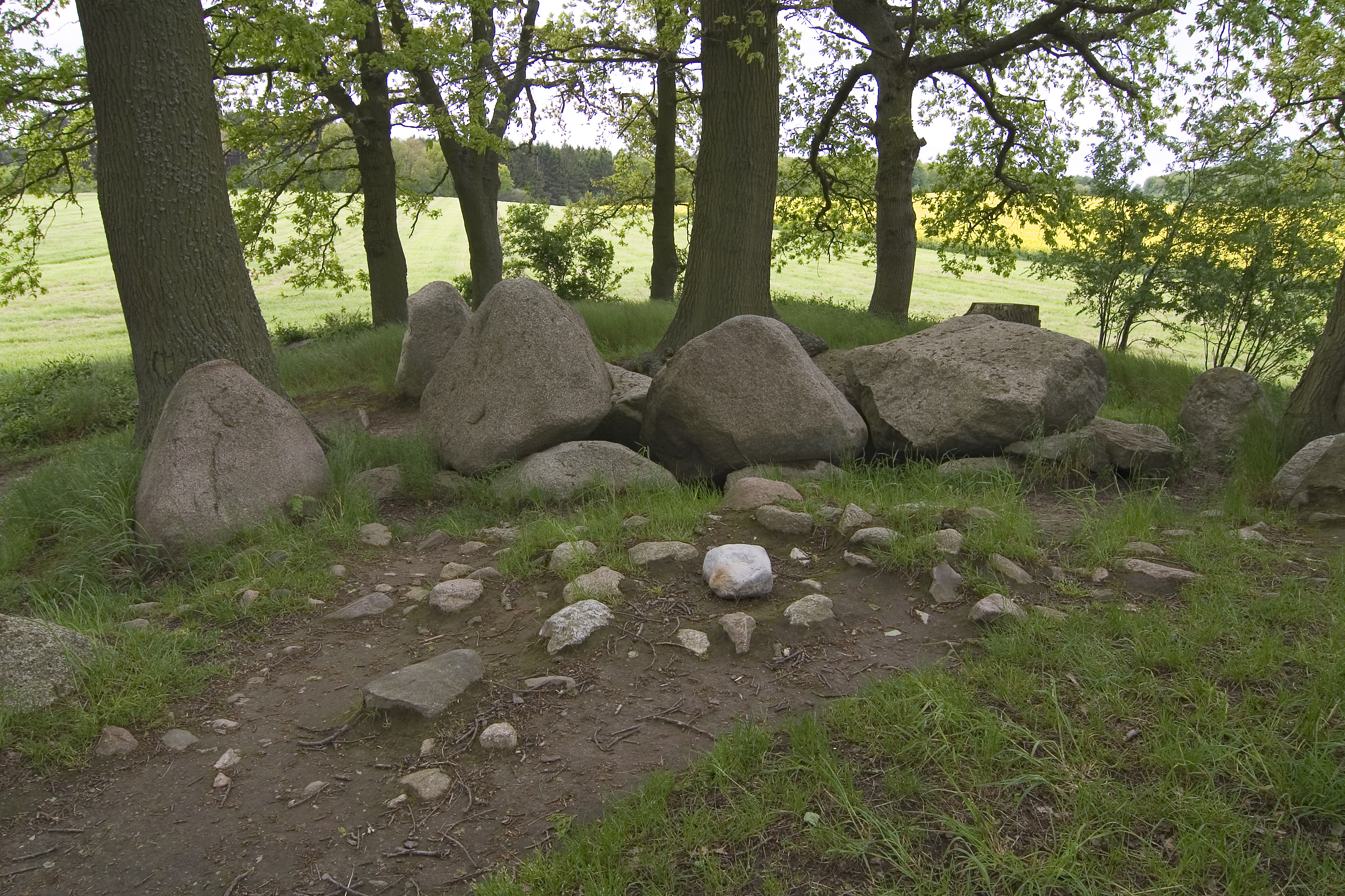 Dolmen Lancken 3, island of Rügen